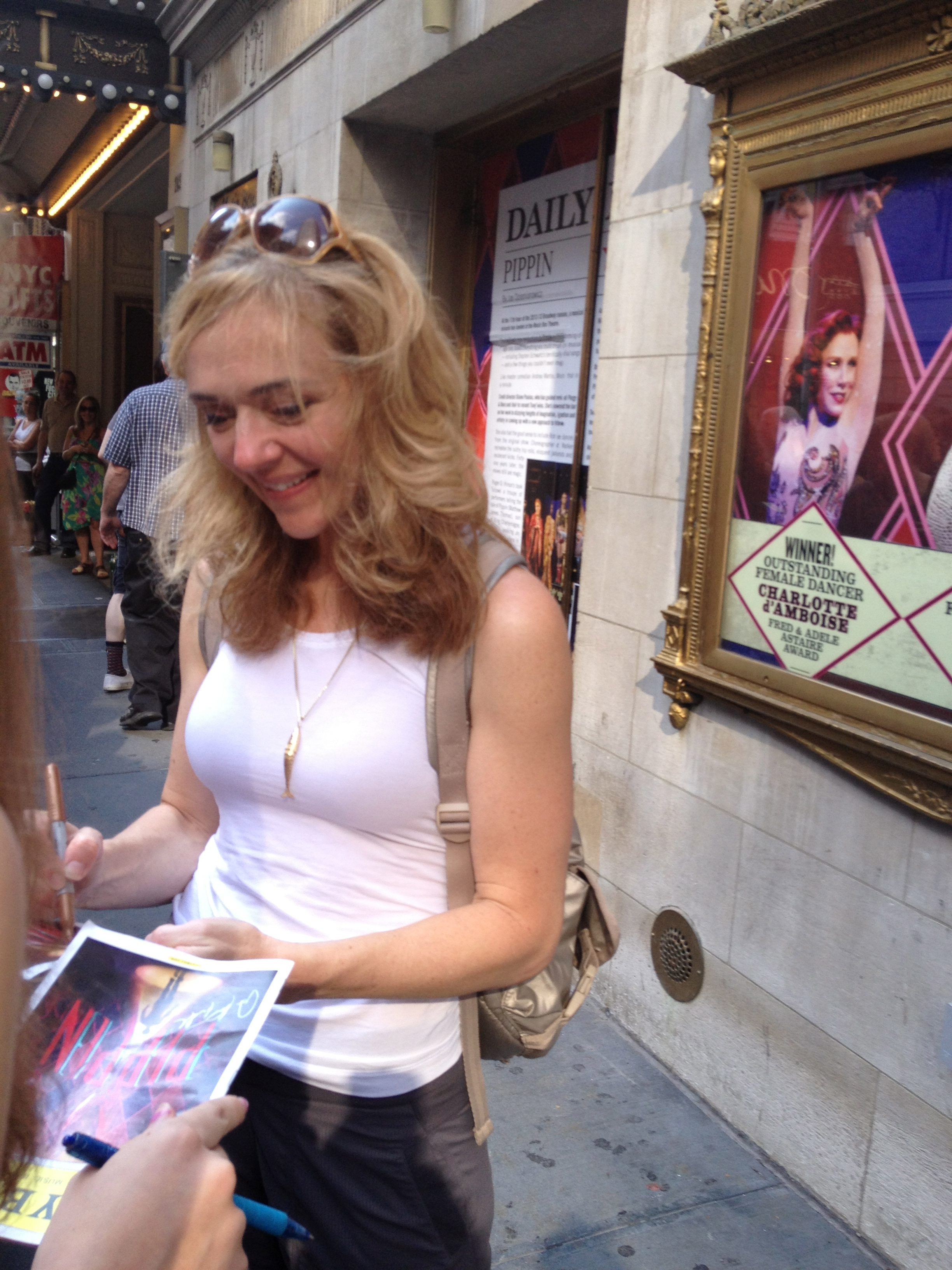 Rachel Bay Jones at the stage door after a performance of Pippin on Broadway.